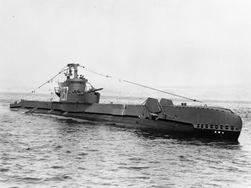 British S class submarine HMSM SCYTHIAN underway.